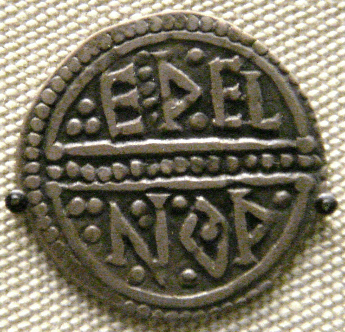 Reverse of a coin of King Offa of Mercia (reign 757–796), minted by the moneyer Ethelnoth (Eþelnoþ)